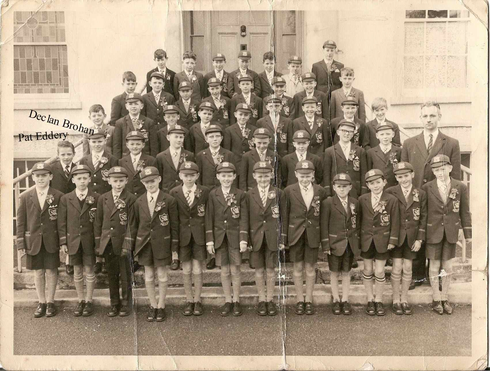 Pat Eddery and Declan max Brohan at Oatlands Primary School, Confirmation Day. Stillorgan